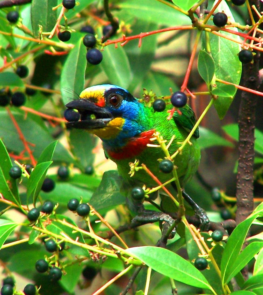 Taiwan Barbet Megalaima nuchalis (syn. Megalaima oorti nuchalis), Taipei City, Taiwan